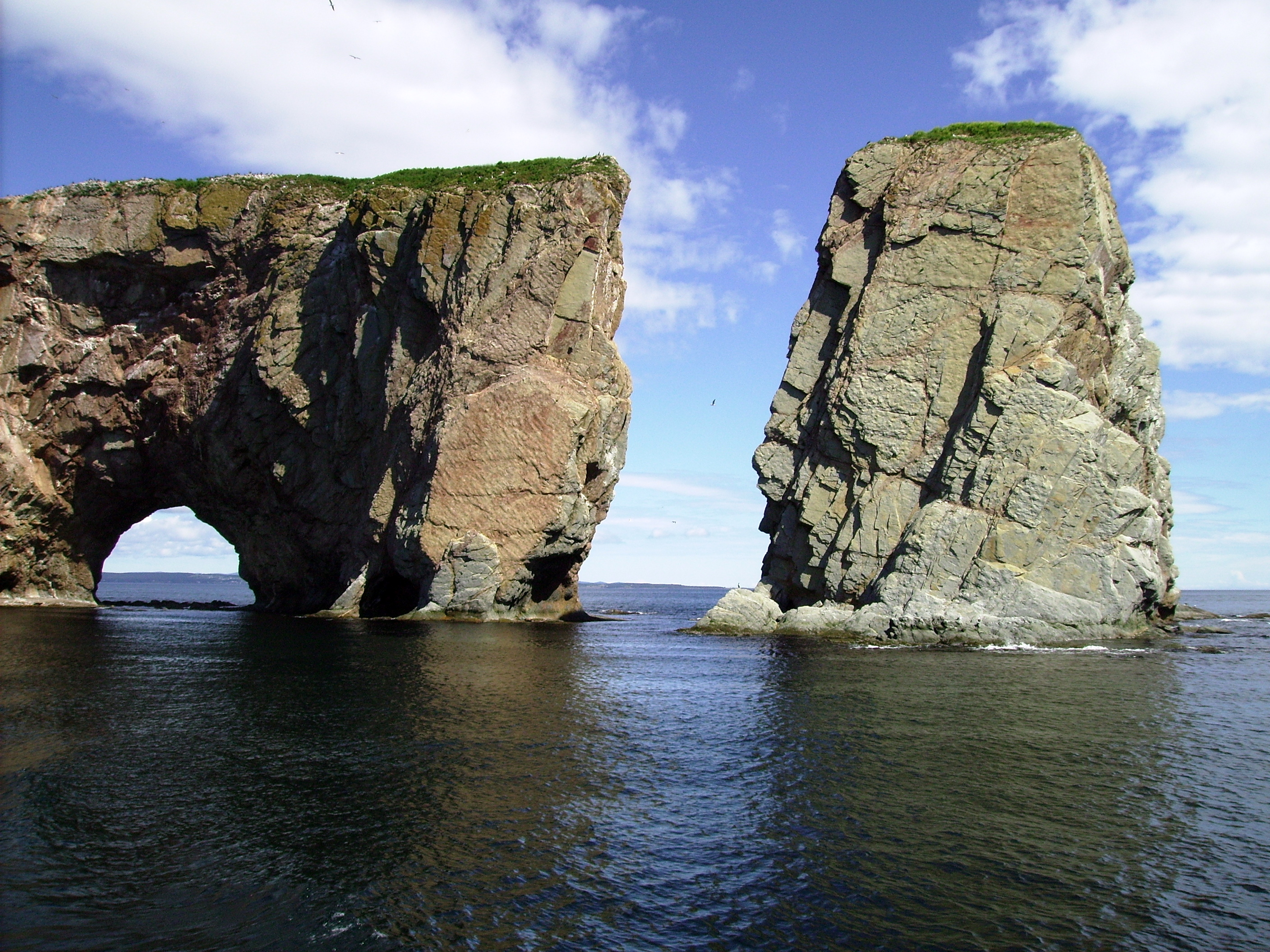 Rocher Percé in front of Ile Bonaventure with its arch and hole, and the nearby stack (the Obelisk).